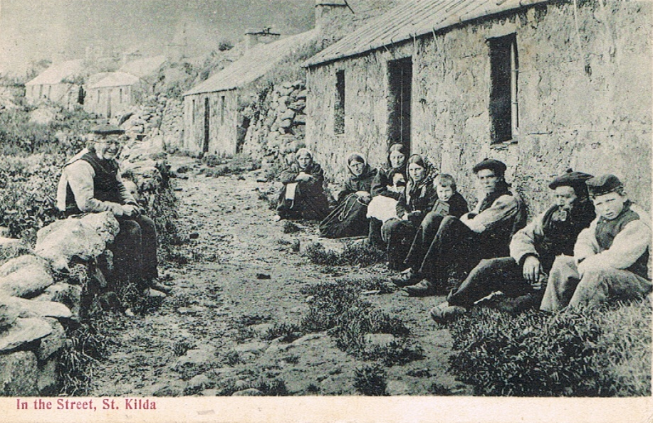 Postcard entitled "In the Street, St. Kilda", used in the post and postmarked from Portree, July 1903